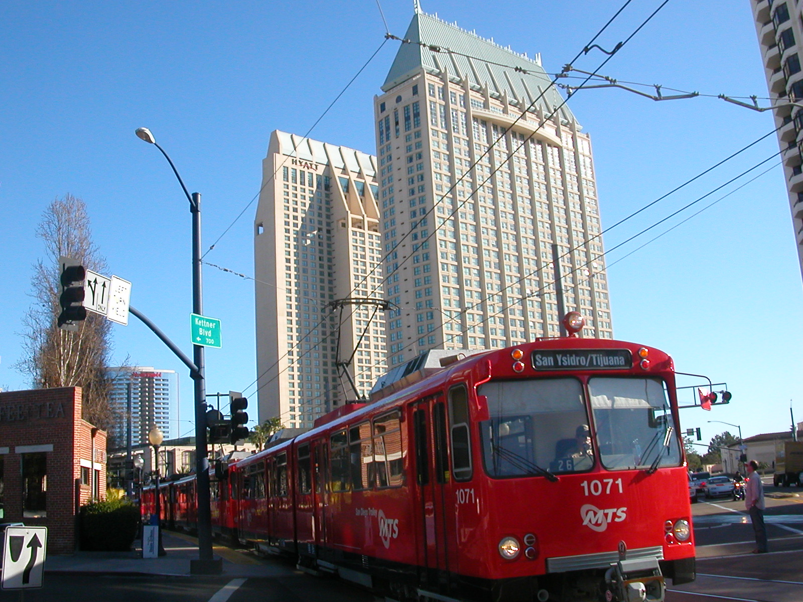 Trolley leaving San Diego for Tijuana